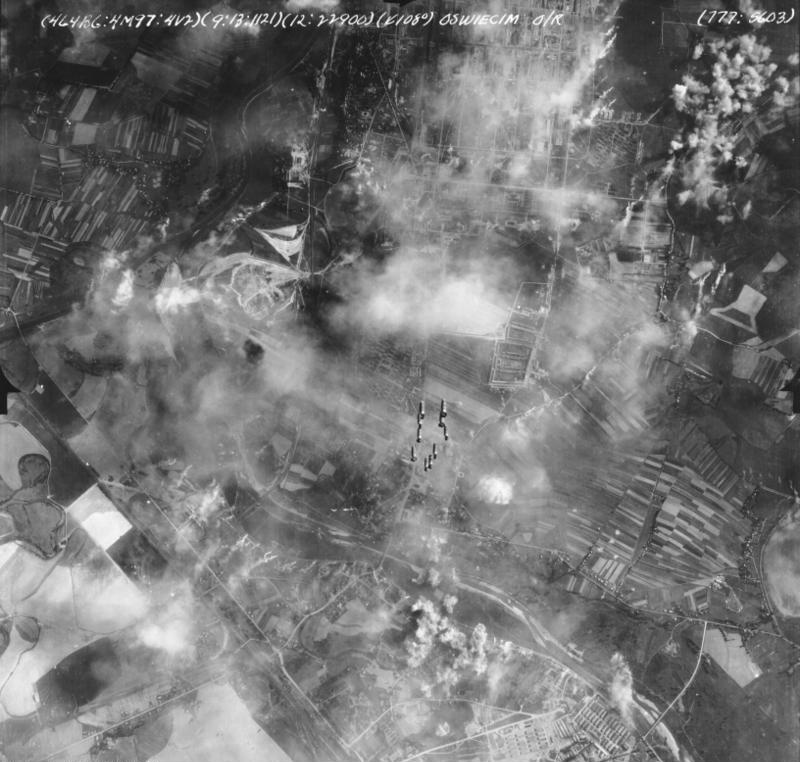 12. Date: 13 September 1944 Mission: 464 BG: 4M97 a. Scale: 1/23,000 Can: B8413 Focal Length: 12" Altitude: 23,000' Pertinent Exposures: 4V2-Part of Auschwitz (lower right margin). Falling bombs visible copy from The National Archives